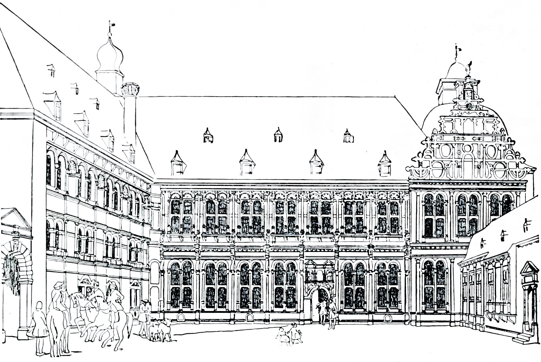 Castle of Horst in Gelsenkirchen, inner yard